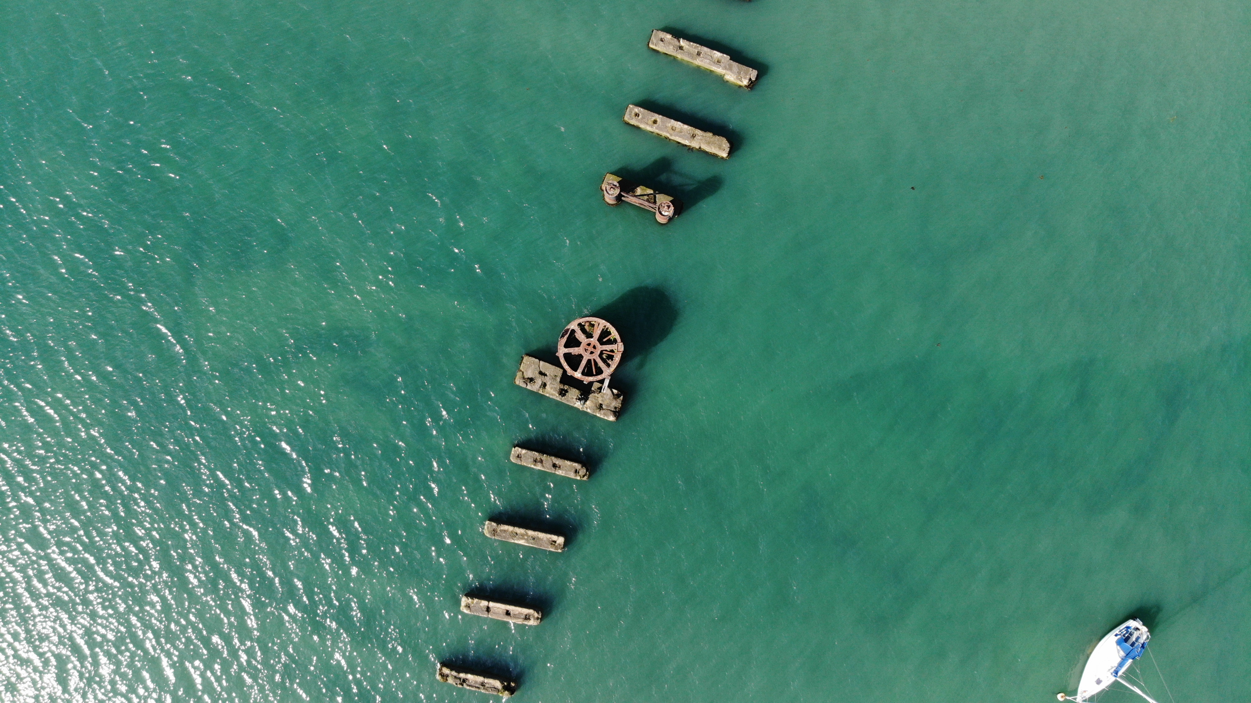 The remains of the swing bridge turntable and the concrete-encased timbers of the Hayling Island Branch Line